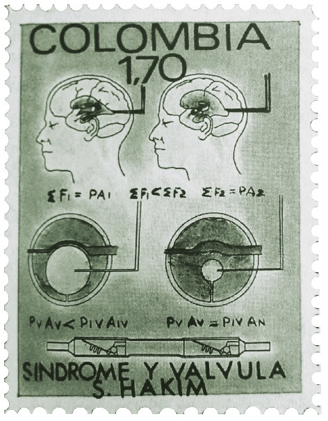 Conmemorative colombian stamp because the discover of the Normal pressure hydrocephalus (1957) and the invention of a valve to it treatment (1966), both made by the colombian physician Salomón Hakim. Note: black and white image. The original stamp has colors.